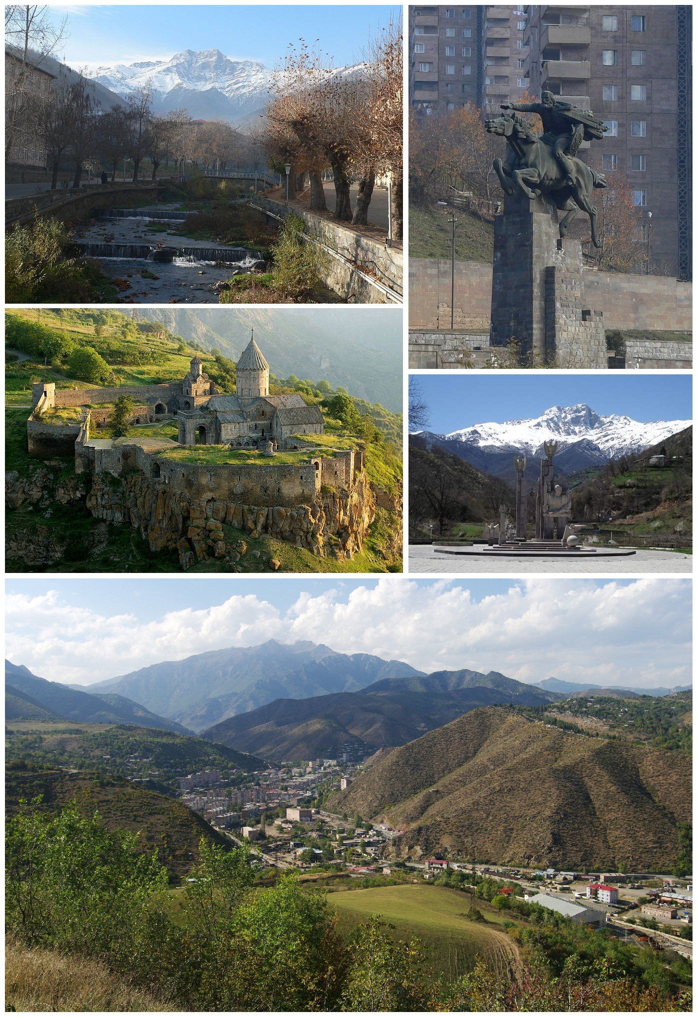 Kapan landmarks, Armenia.